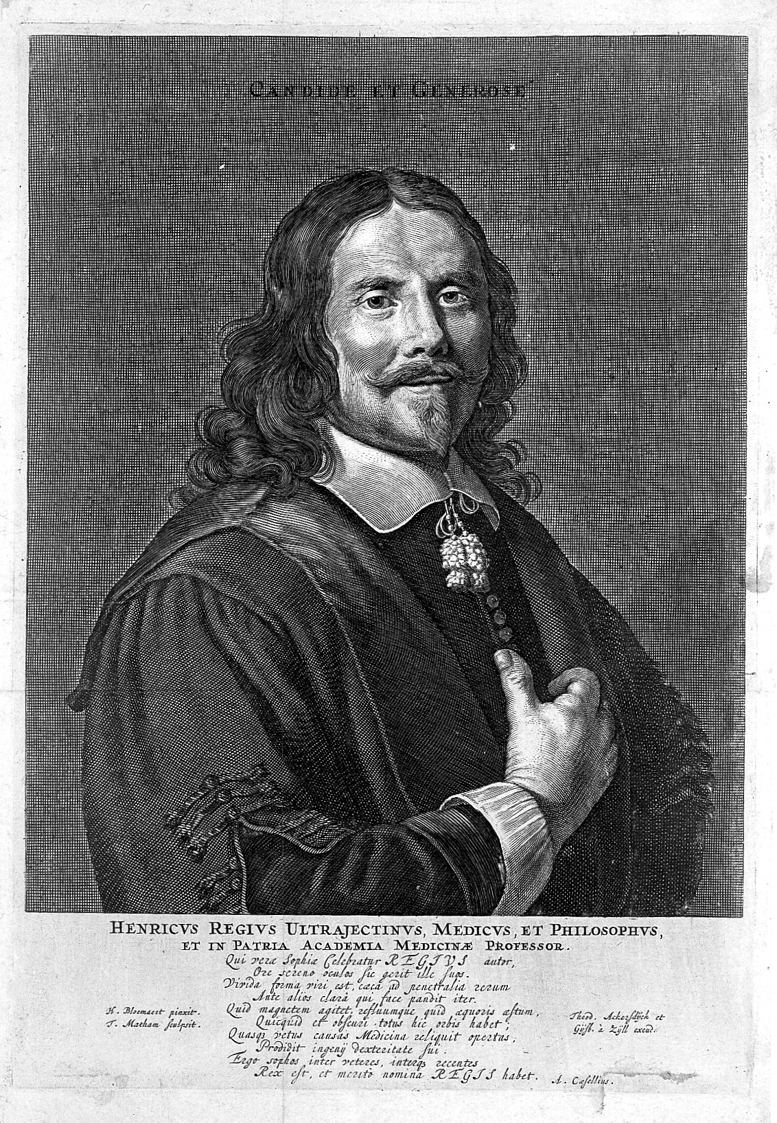 Iconographic Collections